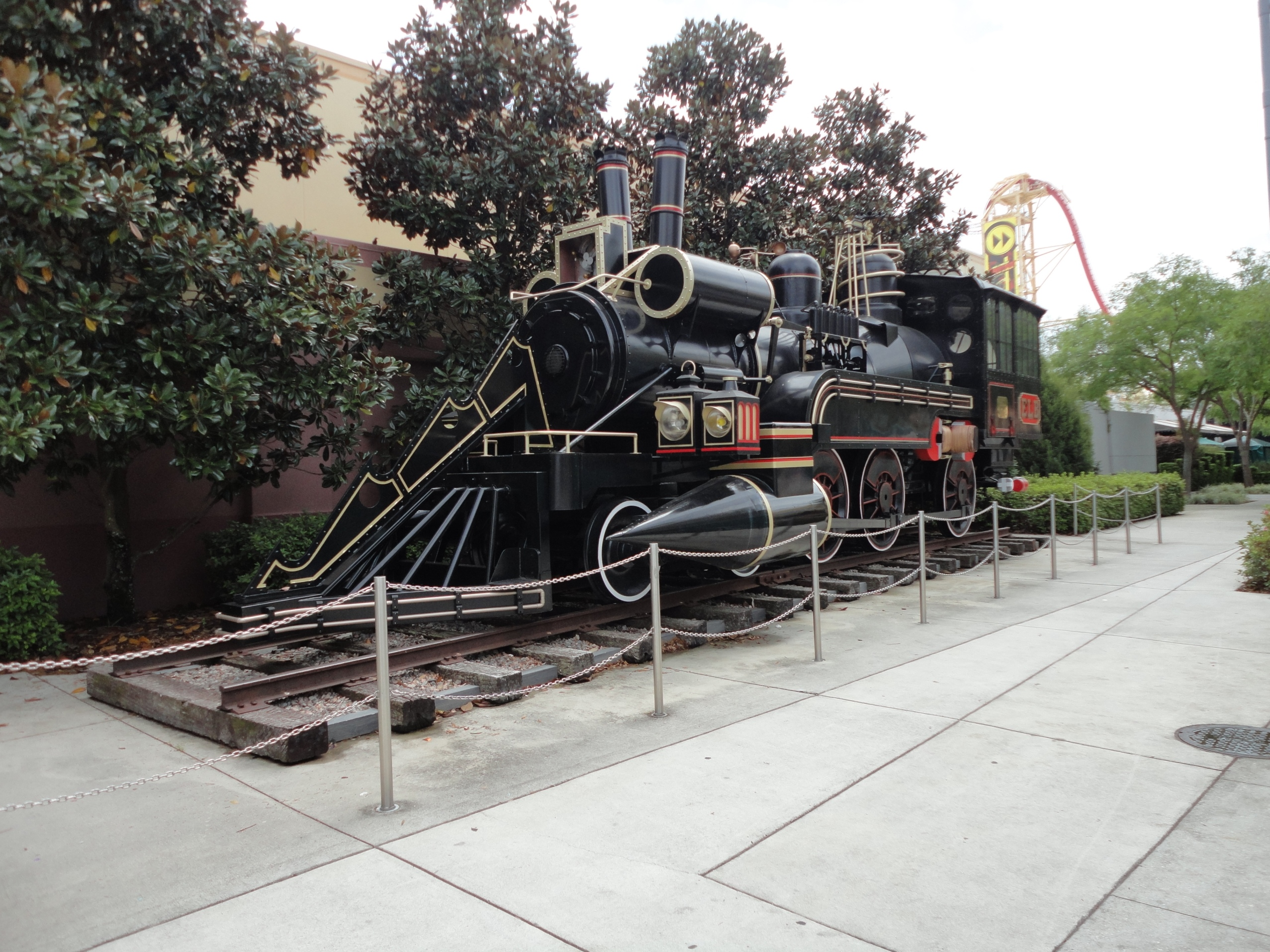 Steam Locomotive in Universal Studios, orlando of the film Back To Future (part III)